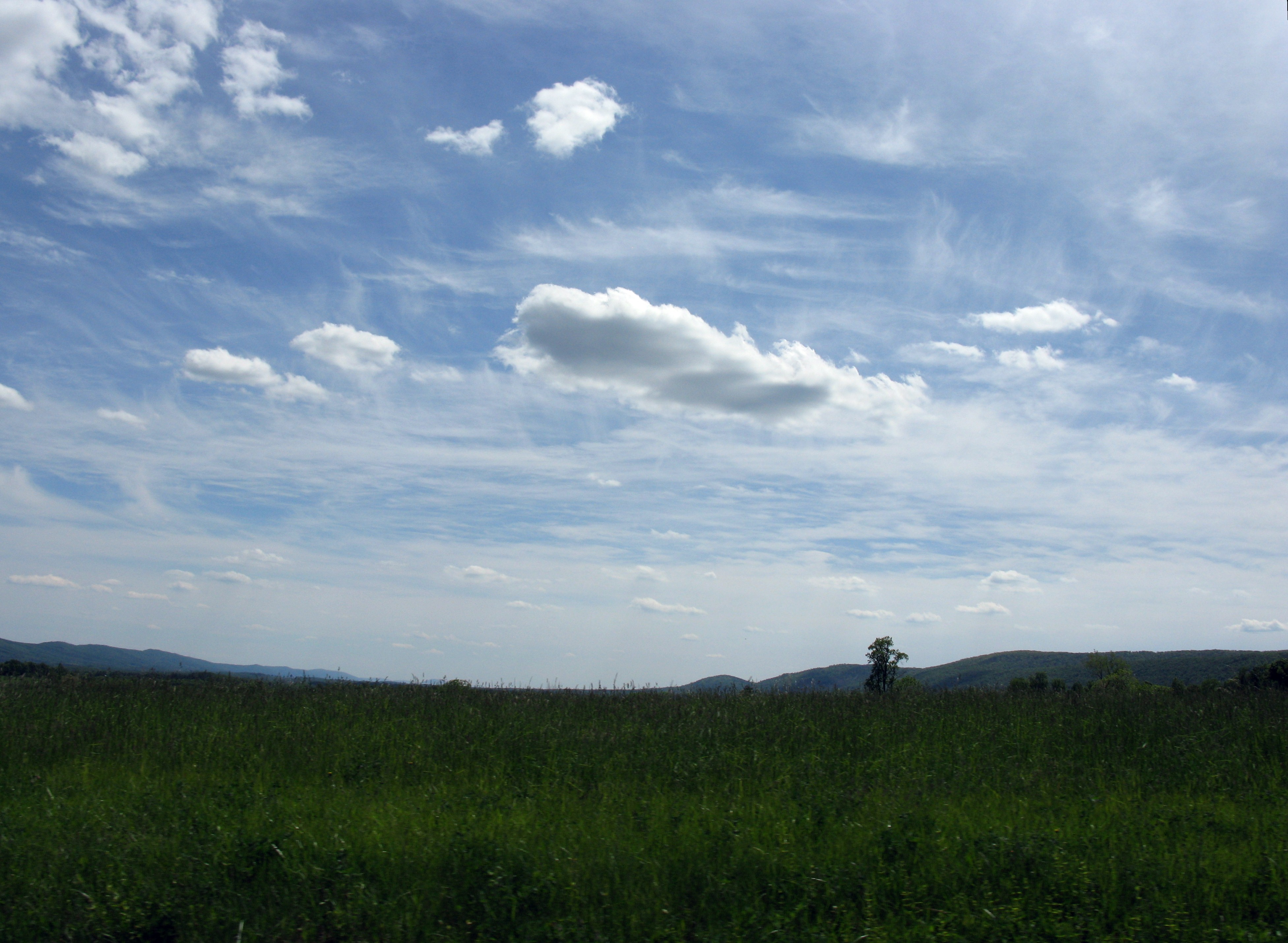 SR 643 near Old SR 126, Brush Creek Township, Pennsylvania